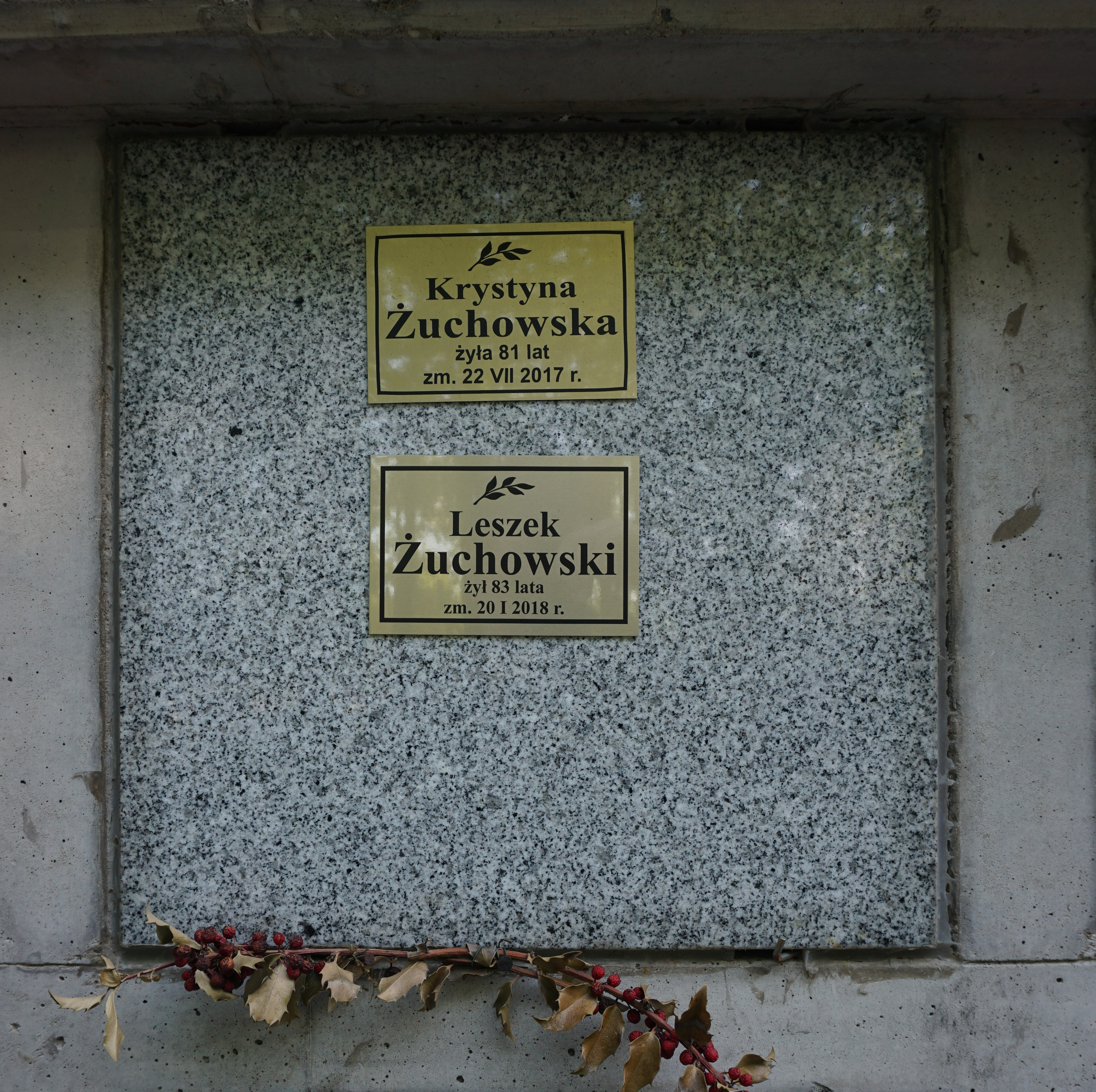 The grave of Leszek Żuchowski at the North Municipal Cemetery in Warsaw (section B-III-1, row 10, grave 21)